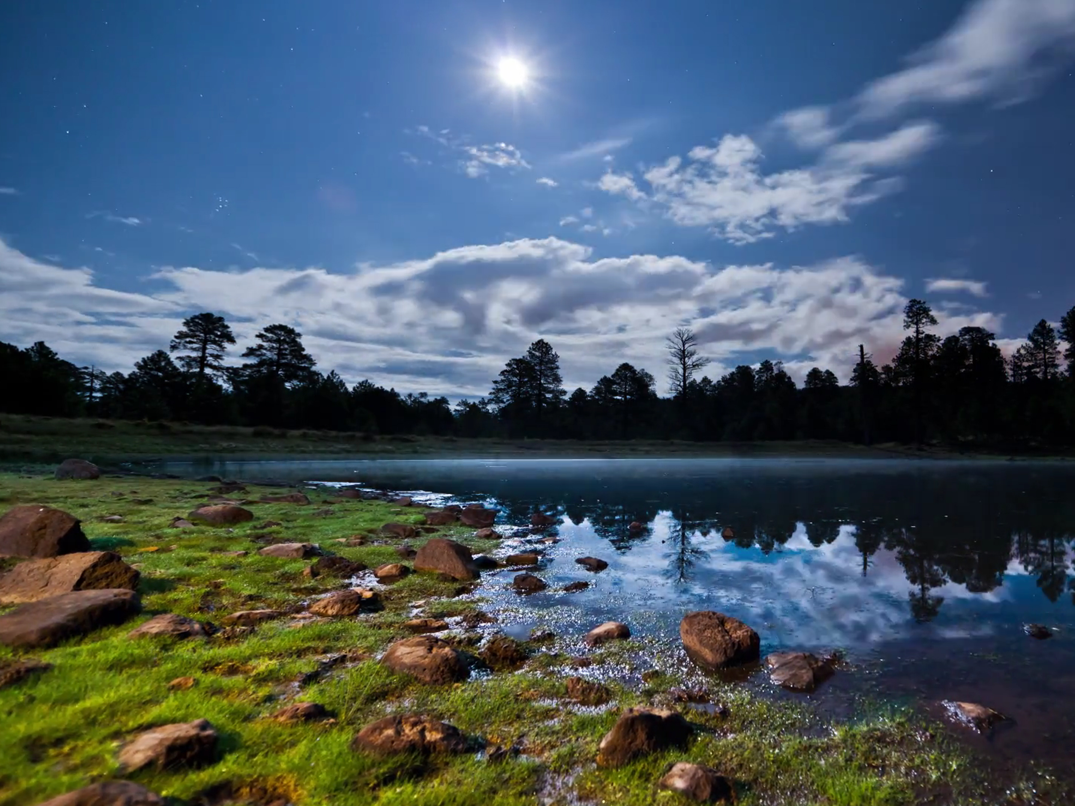 Brook of Indaiá - Petrópolis - RJ - Brazil - PU1JFC ™ ©